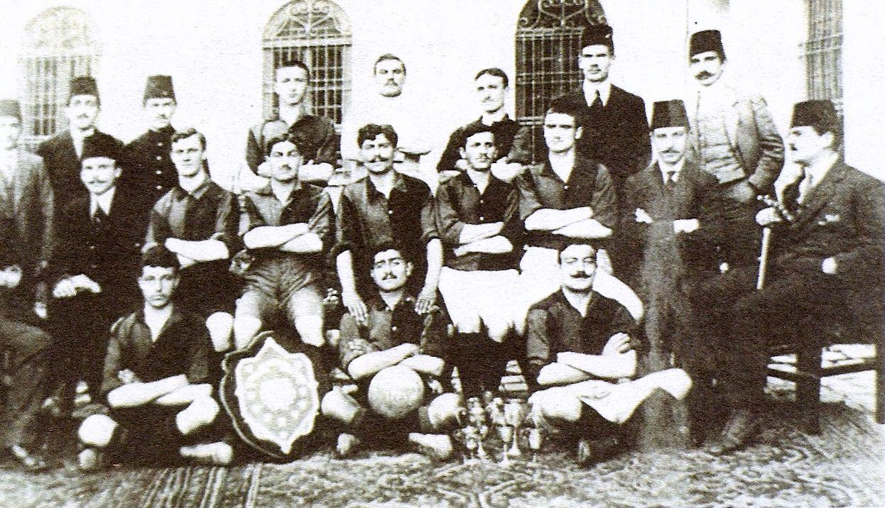 Galatasaray football team in 1910-11 season. From left to right: Back row - ?, ?, ?, ?, Ahmet Robenson, ?, ?, ? Middle row - Ali Sami (Yen), ?, ?, Celal İbrahim, ?, ?, ?, ? Front row - ?, Hasan Basri (Bütün), Bekir Sıtkı (Bircan)